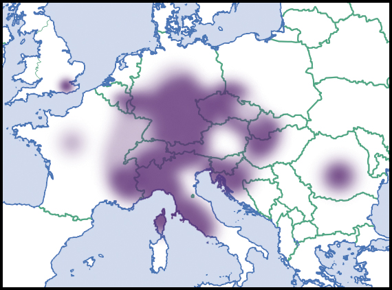 Tandonia rustica (Millet, 1843). Distribution in Europe, scientific state of knowledge of 2012. Source description in English. Light colour indicated rare occurrences or regions where the species could eventually be expected to occur. Dark colour indicated relatively reliable occurrences, as well as regions where the species was expected to occur, and where the species was not known to be extremely rare. Dark colour indications were not necessarily based on published records. Species summary in AnimalBase